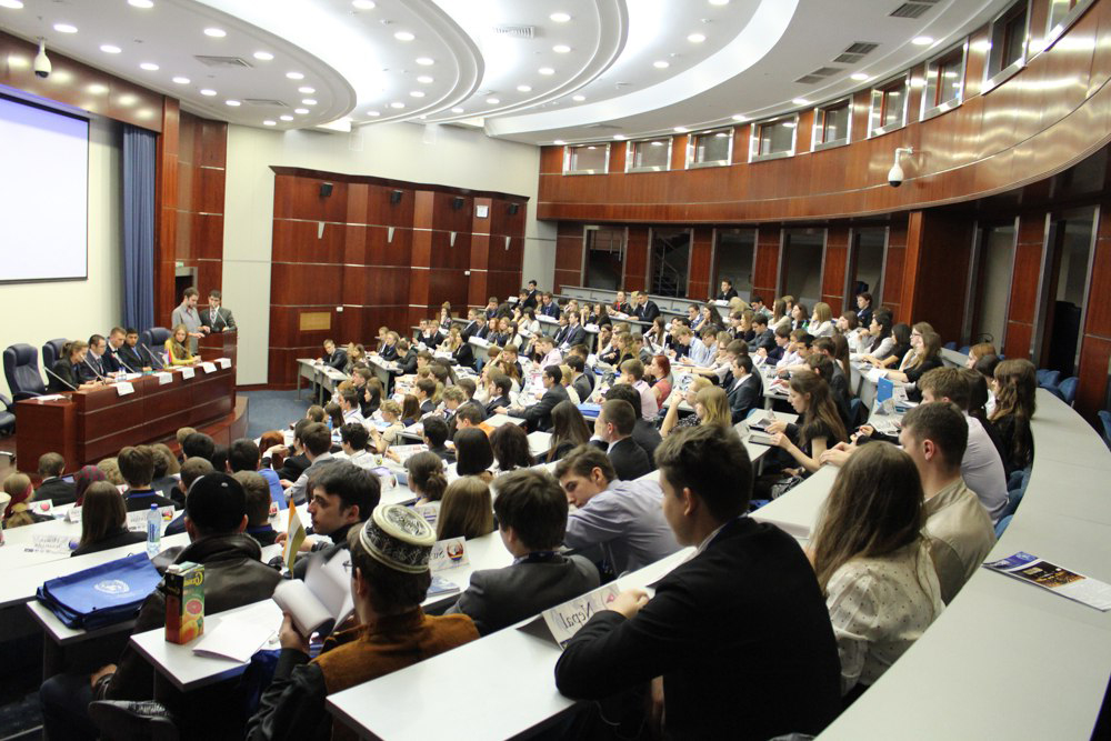 mimun general assambley 2013